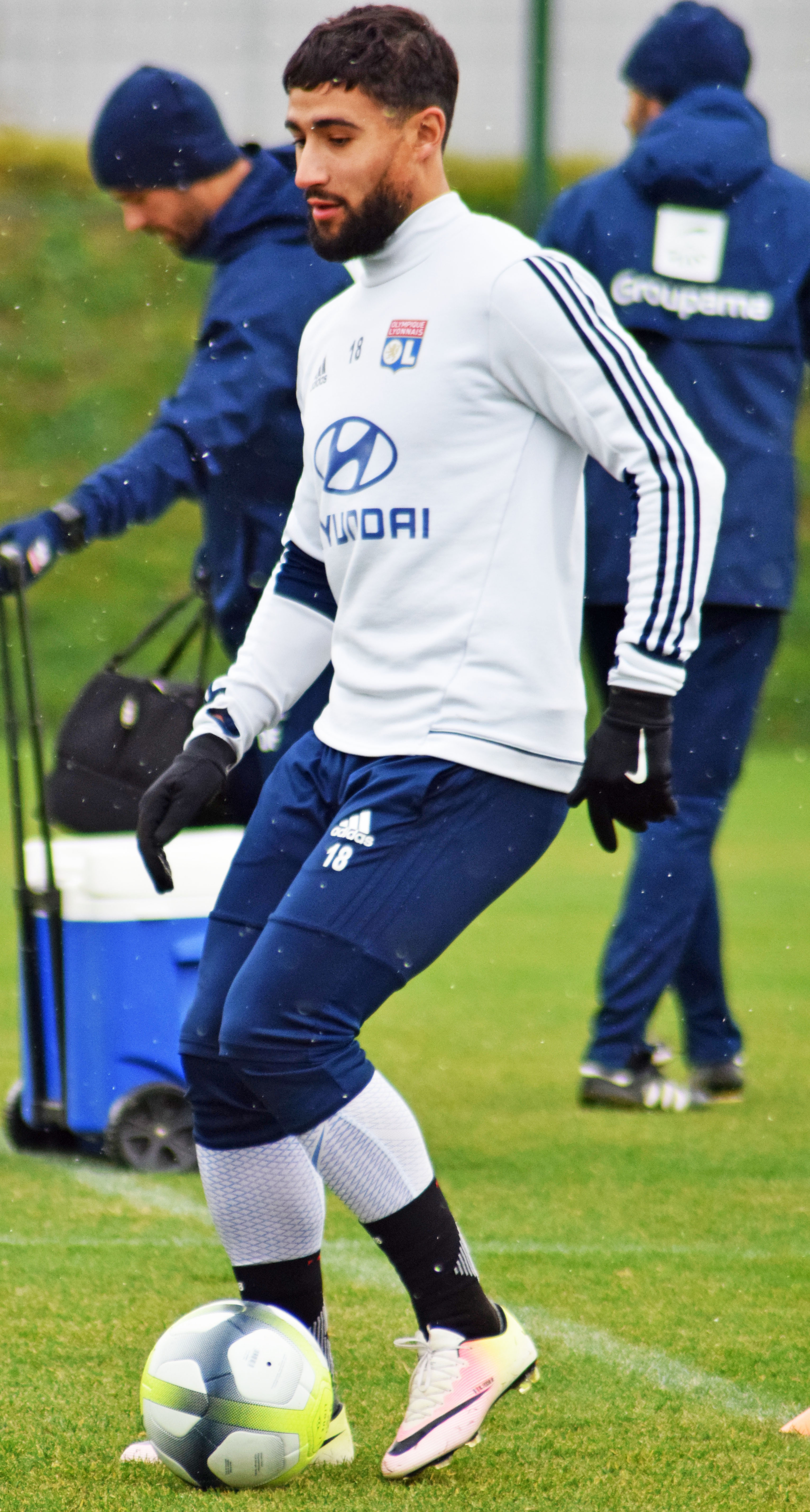 Nabil Fekir in training with Olympique Lyon in 2017.